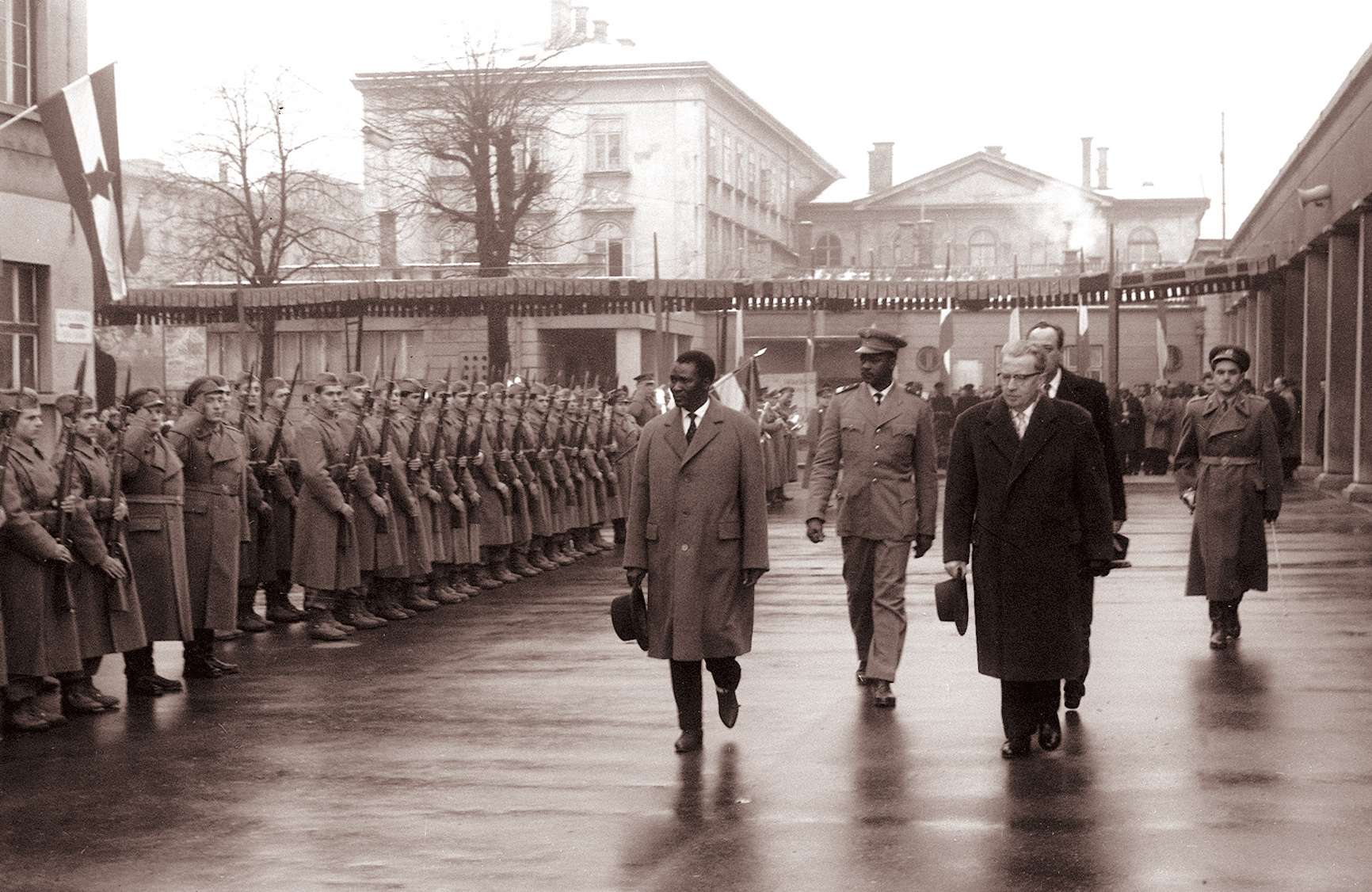 Ahmed Sékou Touré with Miha Marinko in Ljubljana